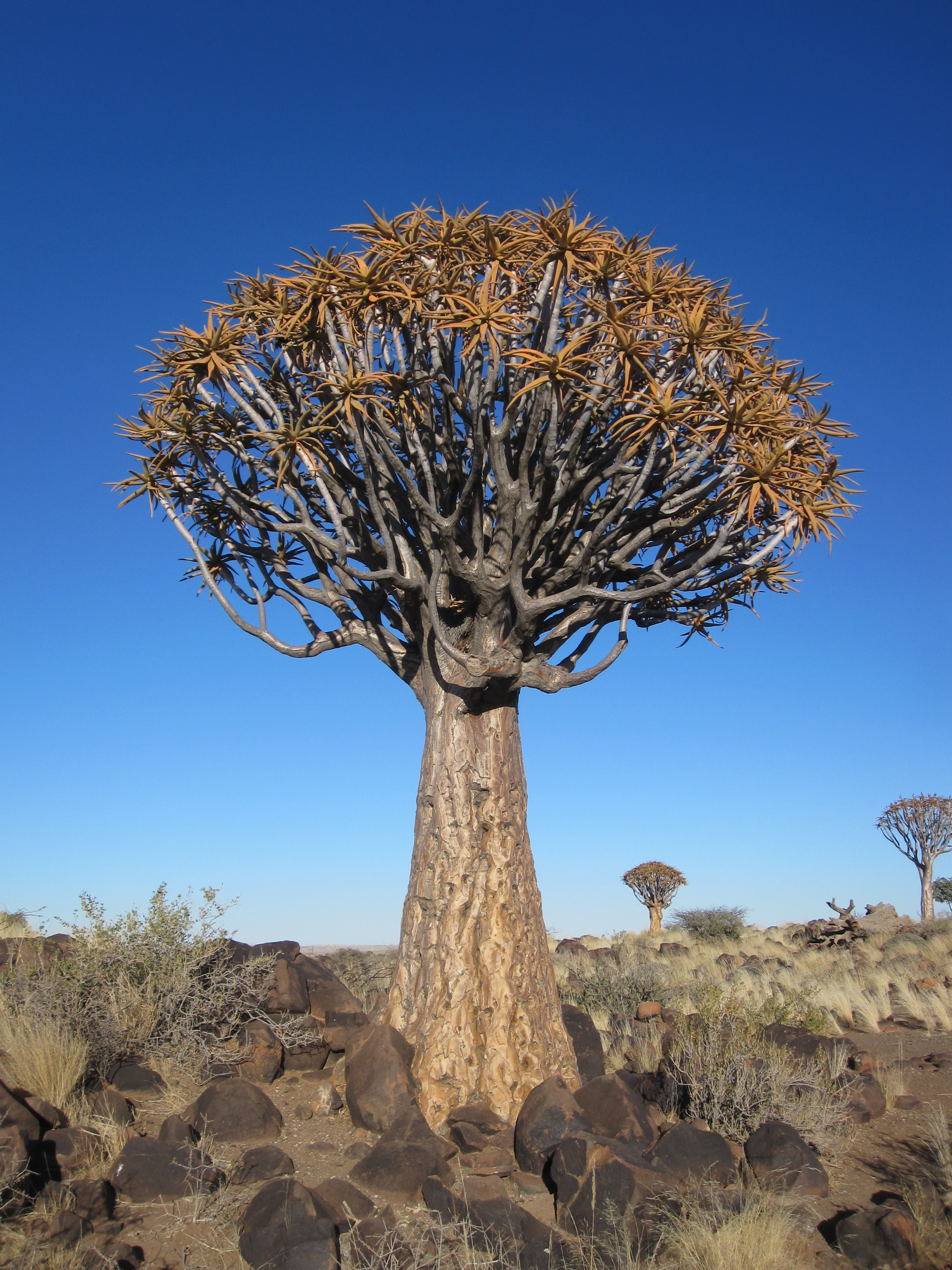 A Quiver tree (also known as Kokerboom) in Keetmanshoop, Namibia.